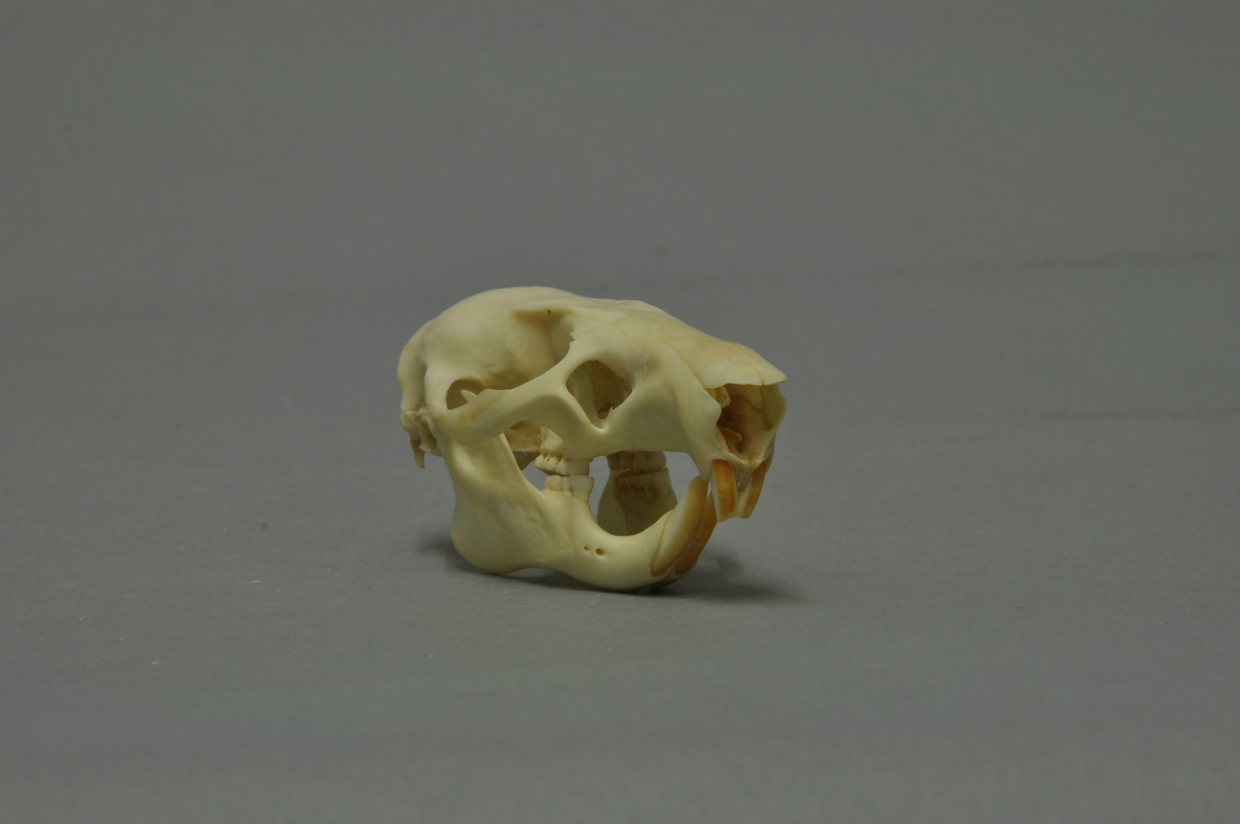 Giant pouched ratCricetomys, skull, Coll. Museum Wiesbaden